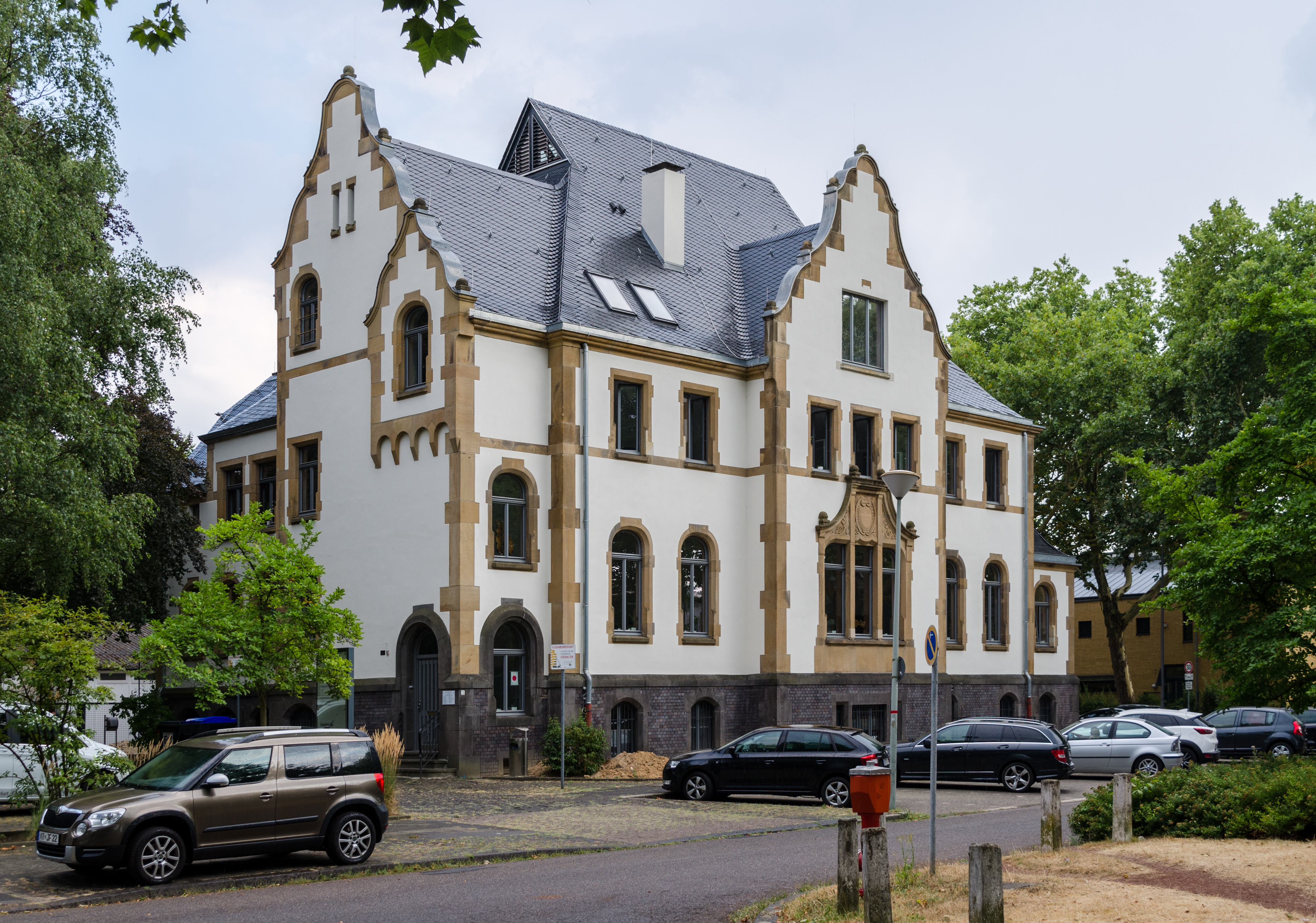 Krefeld (North Rhine-Westphalia, Germany) – district Kempener Feld – hussars' barracks – former officers' mess